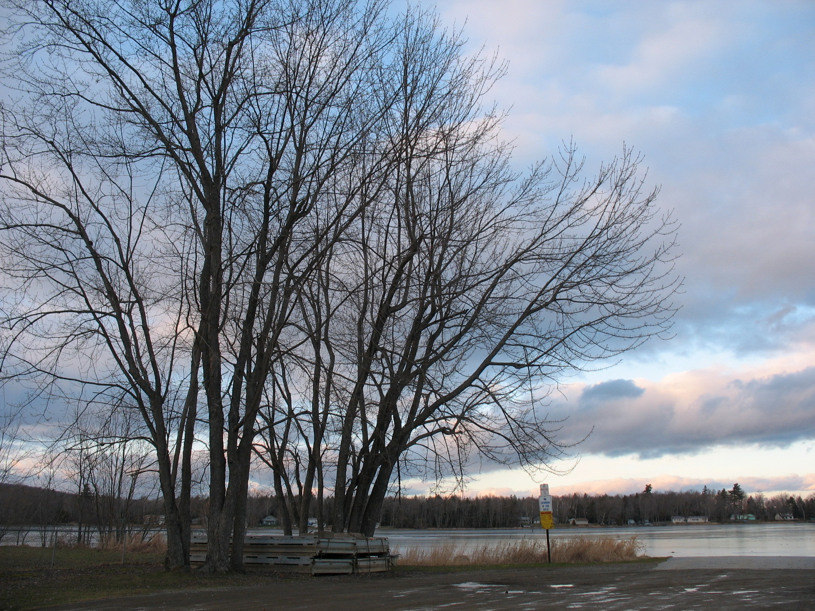 Overlooking Sabasticook lake near Newport, Maine in early December 2006.